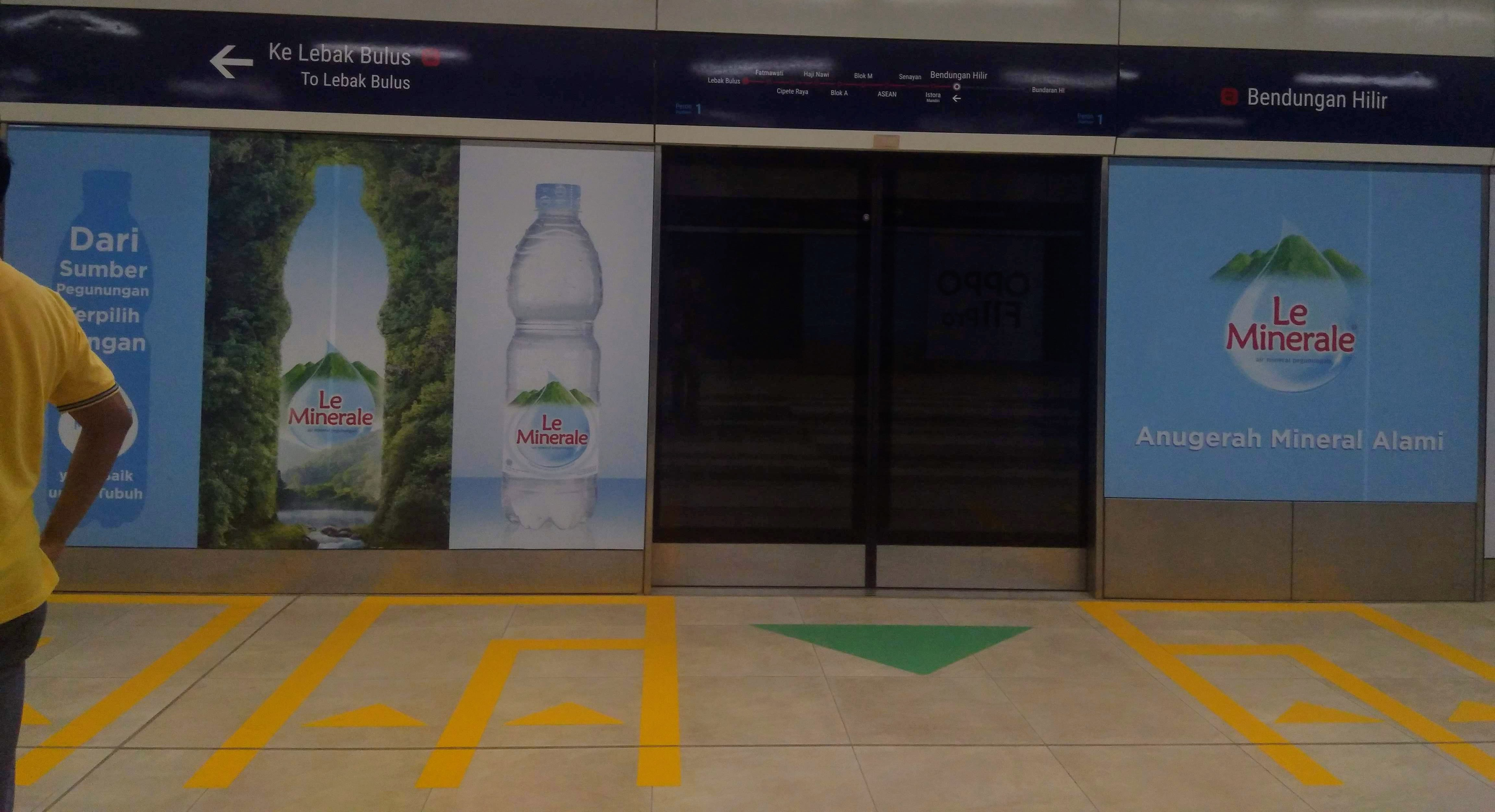 Jakarta MRT Bendungan Hilir Station Platform